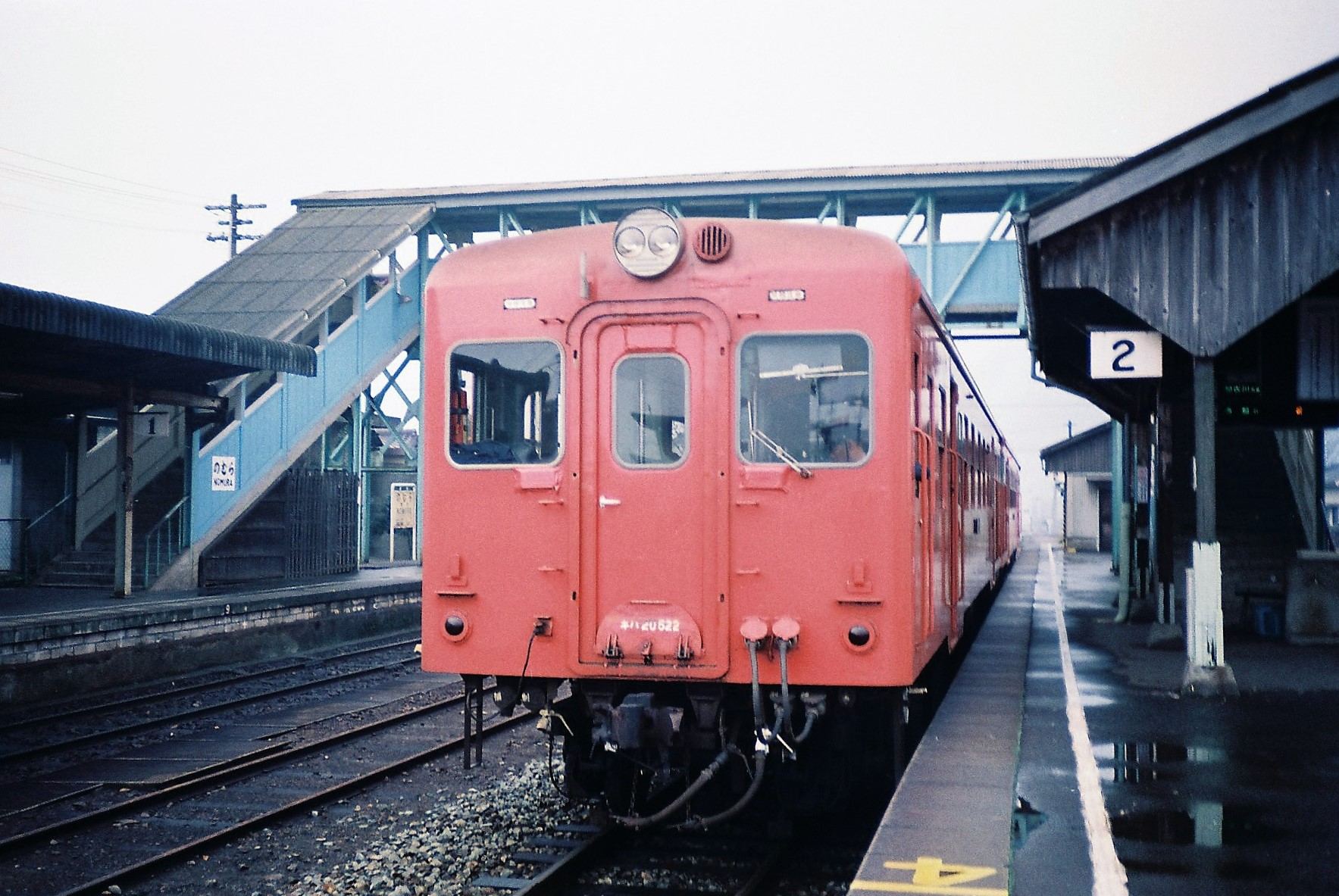 JNR KiHa 20 DMU car KiHa 20 522 at Nomura Station (present-day Nishiwaki Station) on the Kakogawa Line in Hyogo Prefecture, Japan